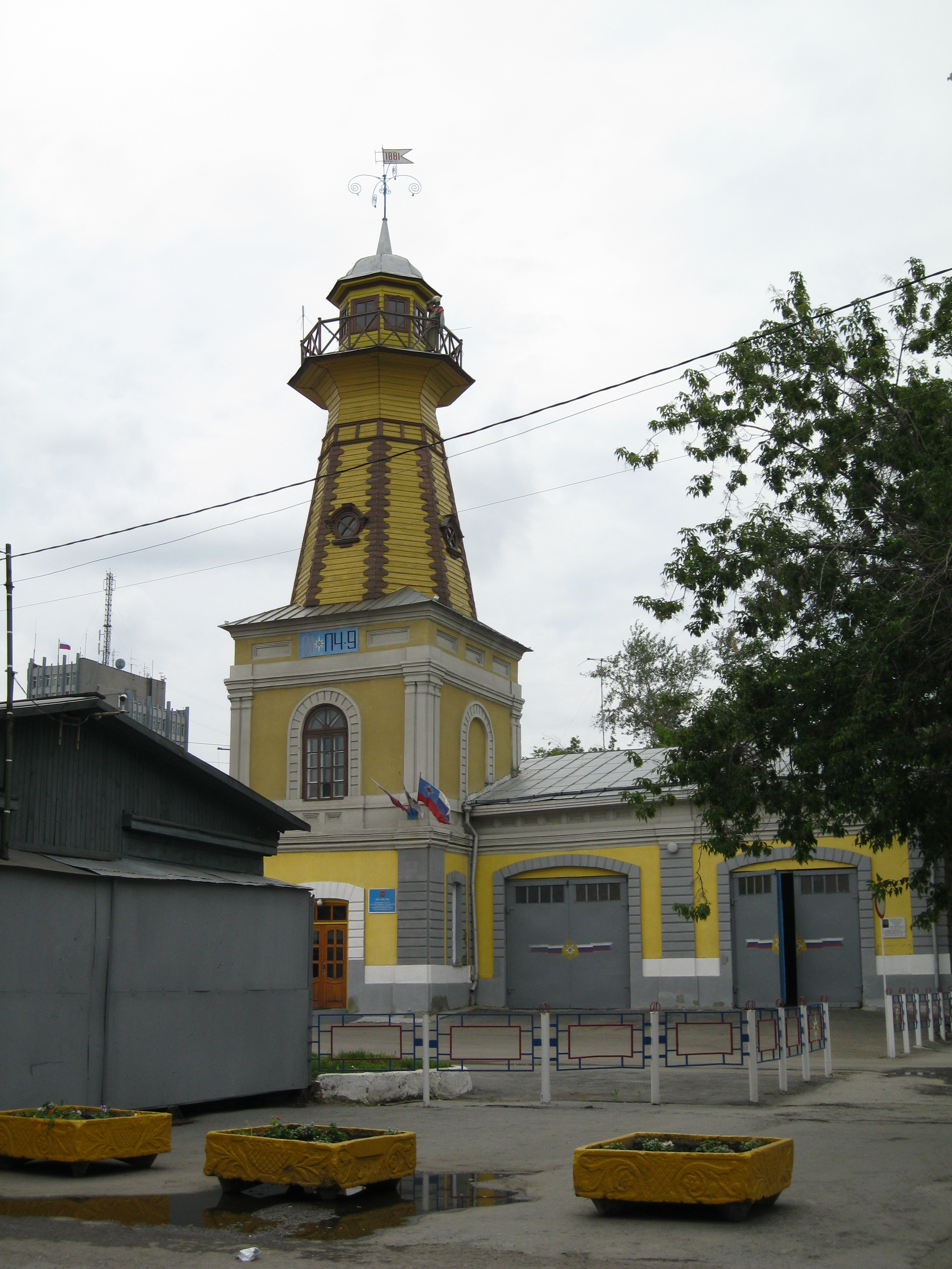 Fire bragade old building in Kurgan, Russia